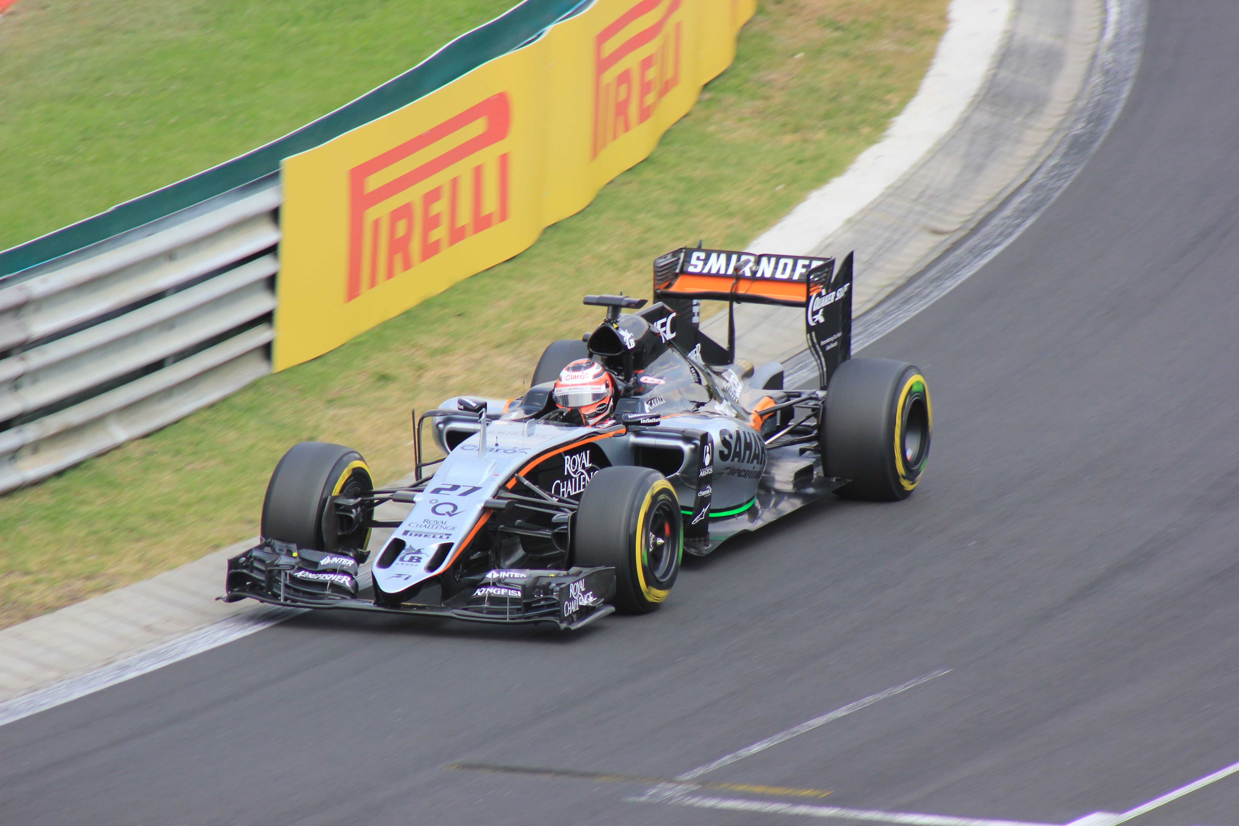 Nico Hülkenberg at the 2015 Hungarian Grand Prix